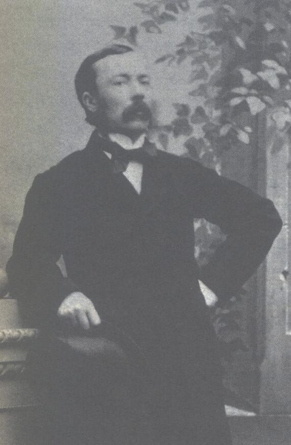 Franz von Roggenbach (1825–1907), German politician